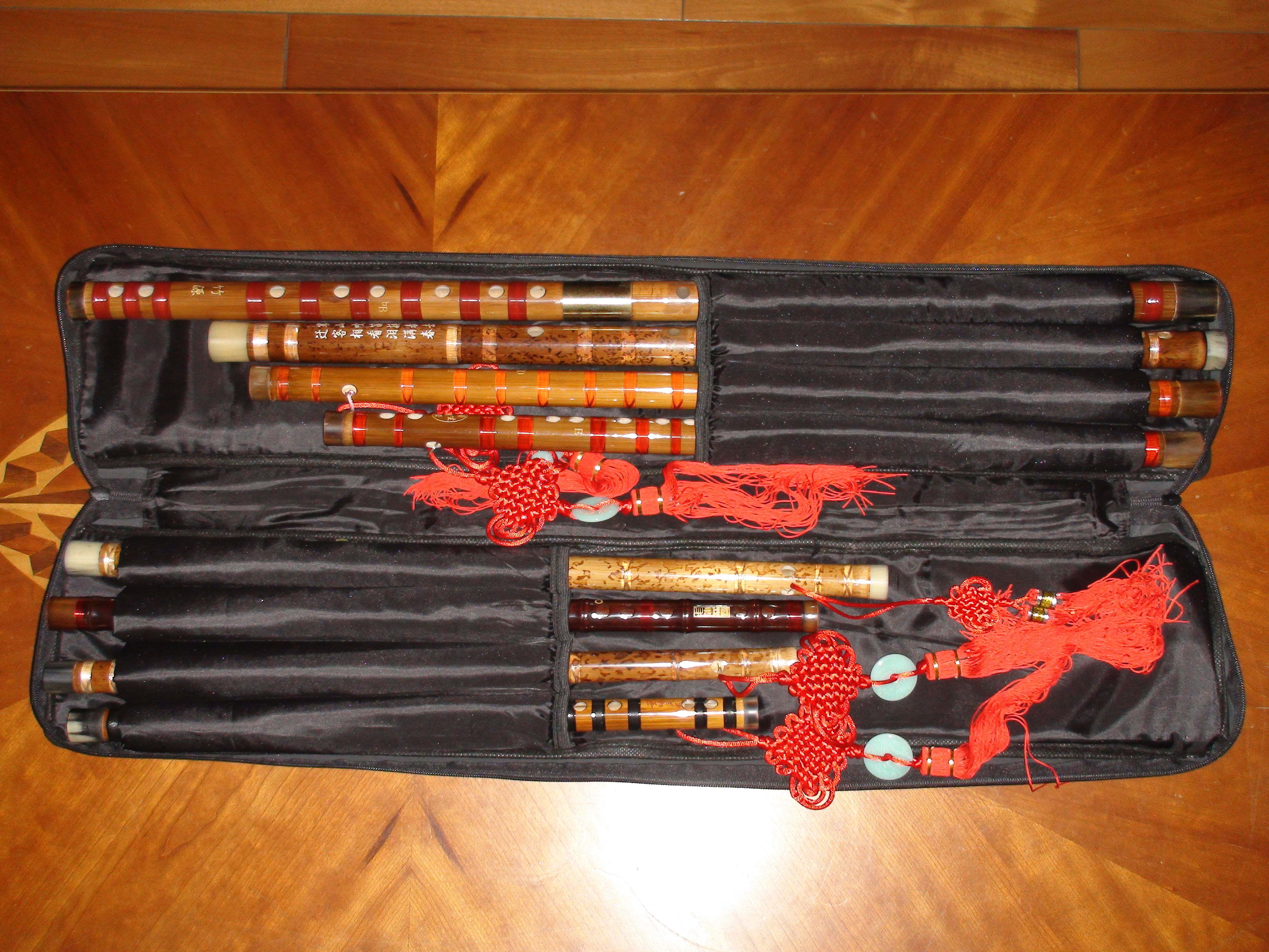 a bag of Dizi in different pitch and size